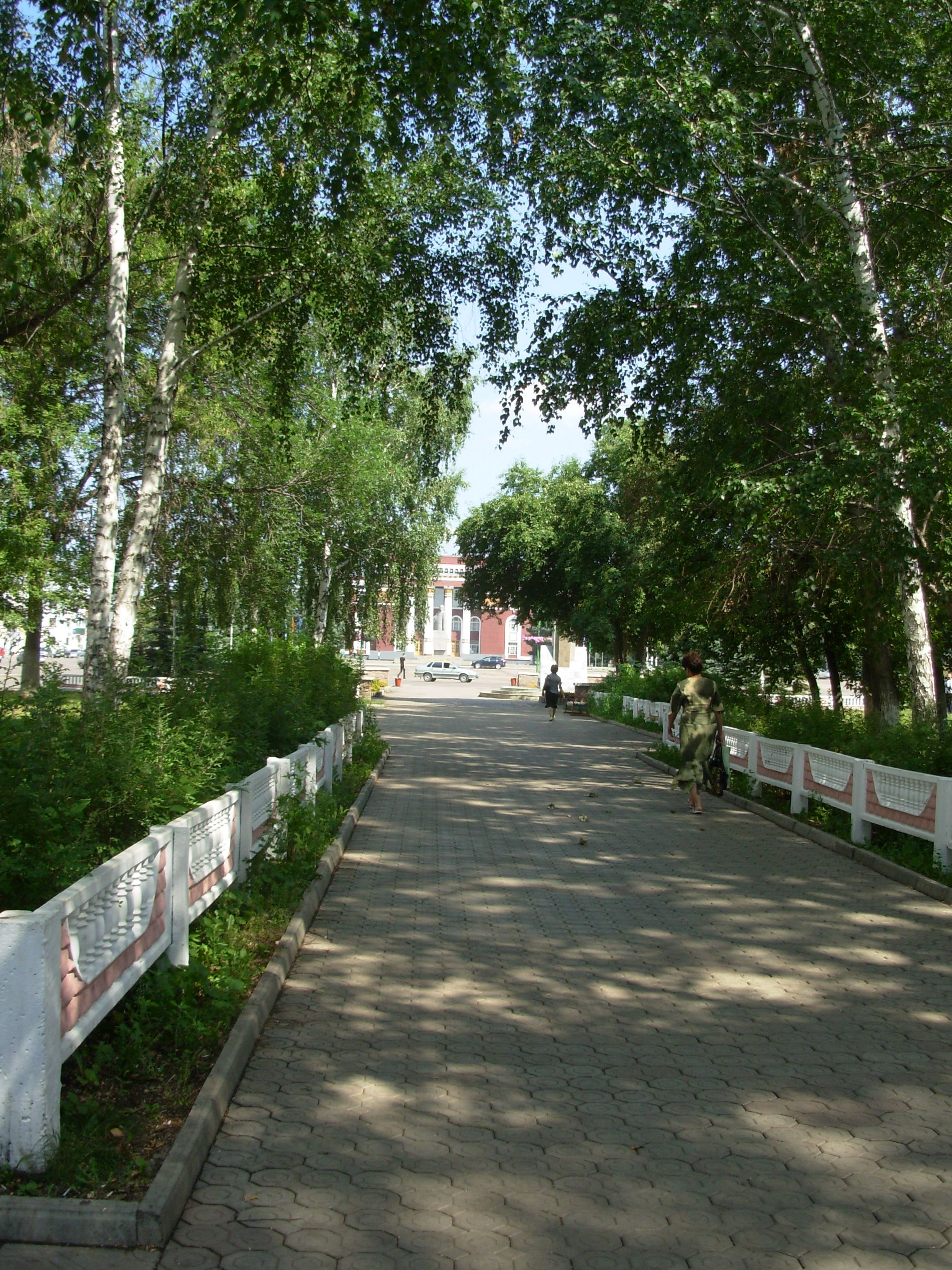 street